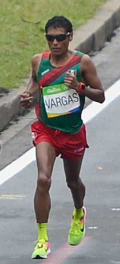 Rio de Janeiro - Sob chuva forte atletas da maratona masculina passam pelo aterro do Flamengo (Tânia Rêgo/Agência Brasil)